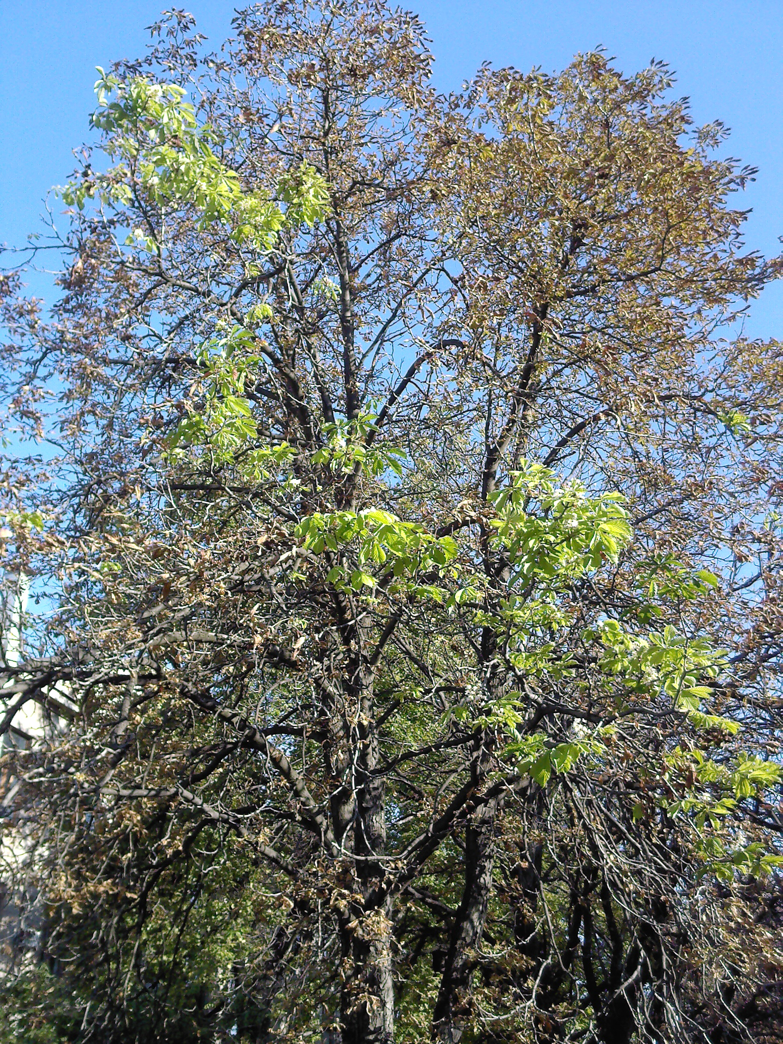 Chestnuts out of the heat waves after the fall re-let the leaves and blossom. The reason was the failure of biorhythm plants.